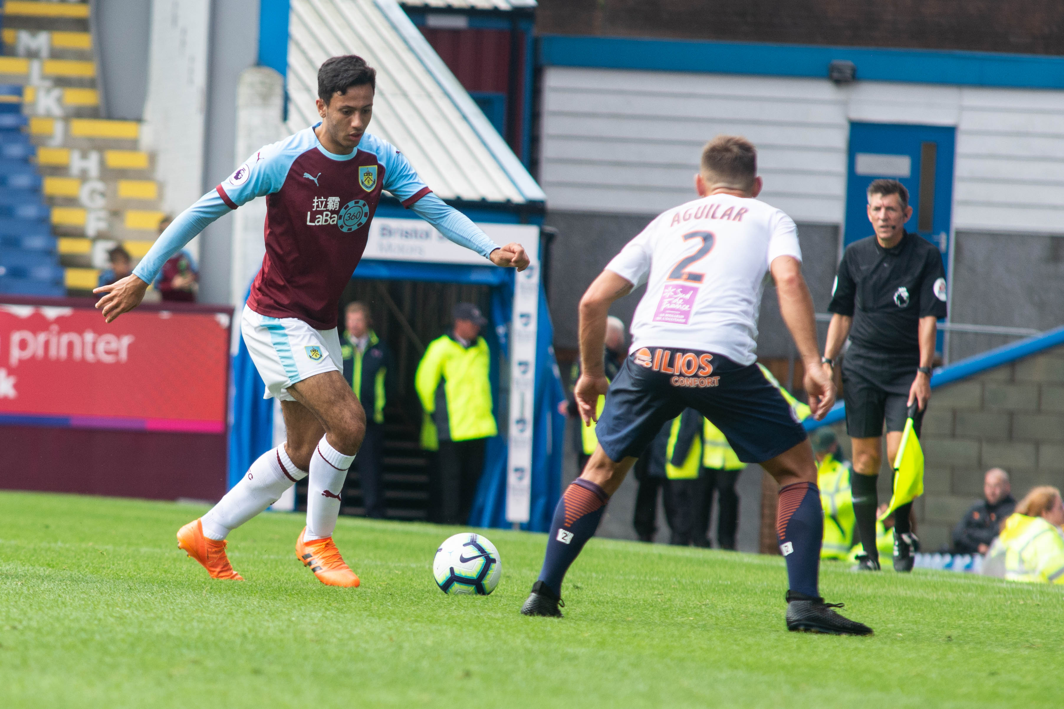 Dwight McNeil looks to take a Montpellier player on